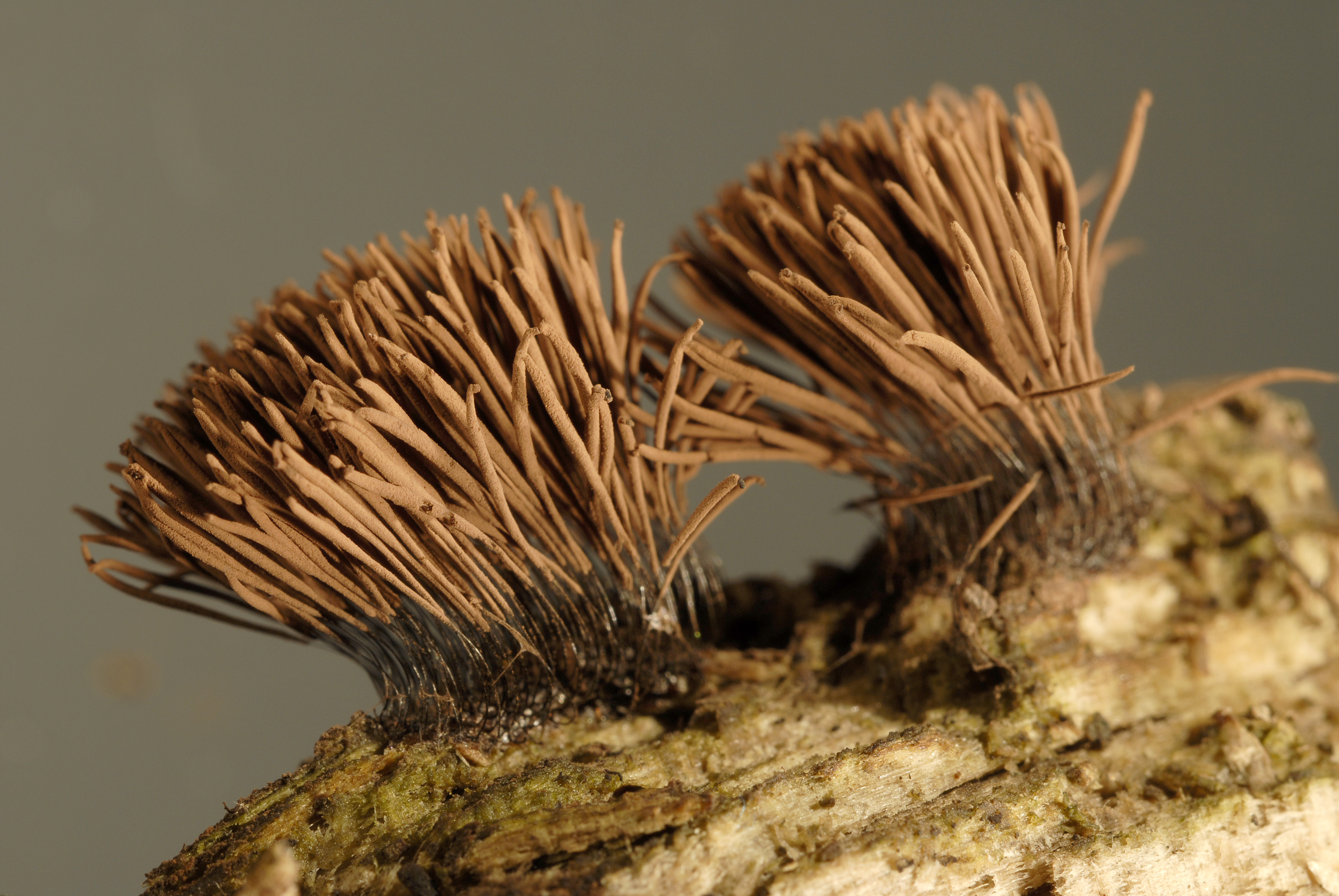 Fruit body of the slime mold Stemonitis axifera (Bull.) T.Macbr., specimen found in Jordan Station, Ontario, Canada.